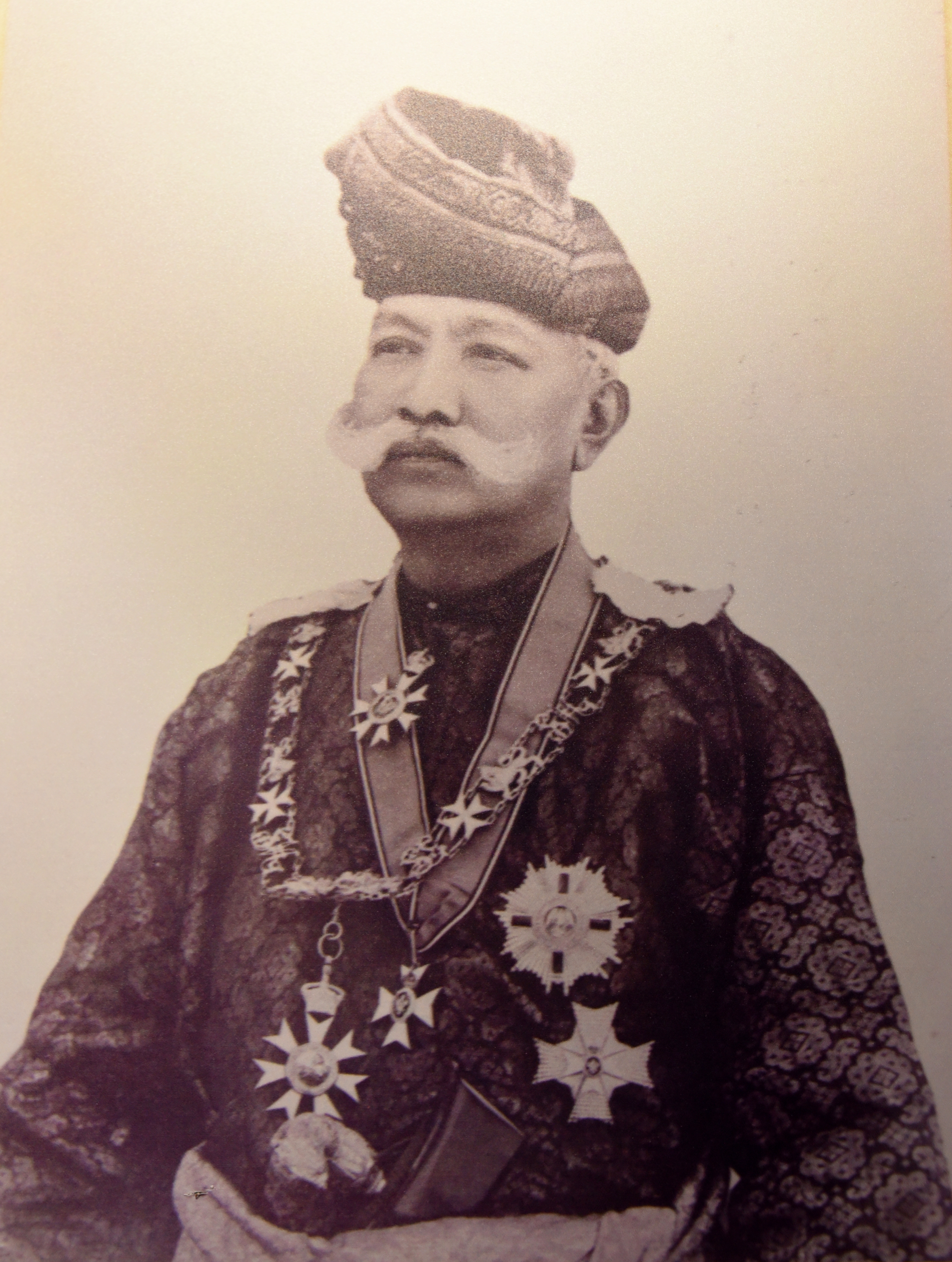 Paduka Sri Tuanku Sir Muhammad Shah ibn al-Marhum Tuanku Antah, the 1st Yang di-Pertuan Besar of Negeri Sembilan. The name of the photographer was not mentioned. The original image is © the Tuanku Ja'afar Royal Gallery, Seremban, Negeri Sembilan, Malaysia.